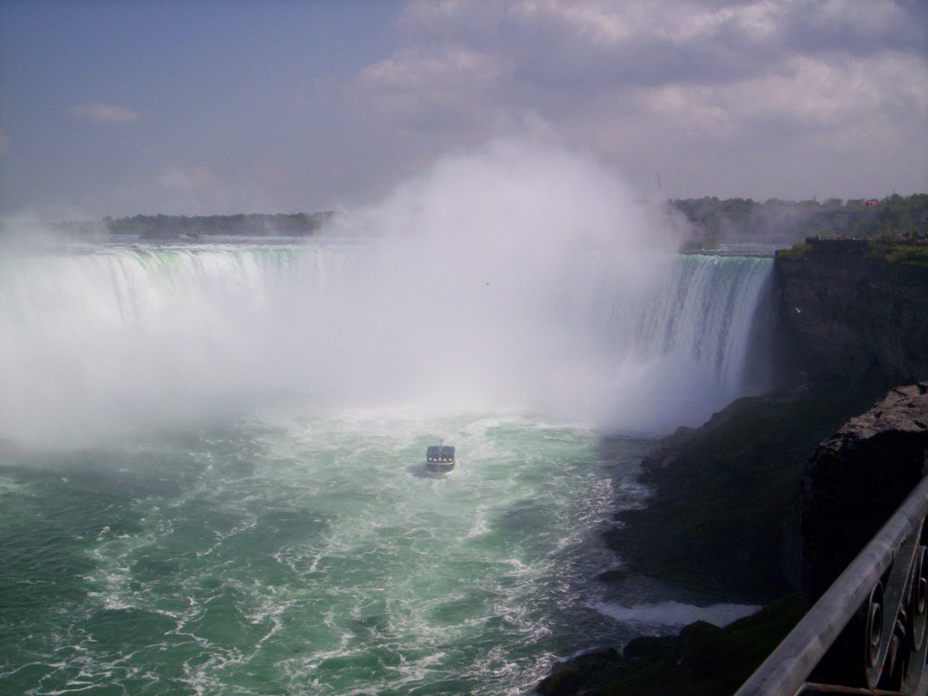 Niagara Falls (Horseshoe Falls portion) and a "Maid of the Mist" leisure boat, view from the Canadian side